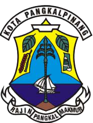 Old Logo of Pangkalpinang City